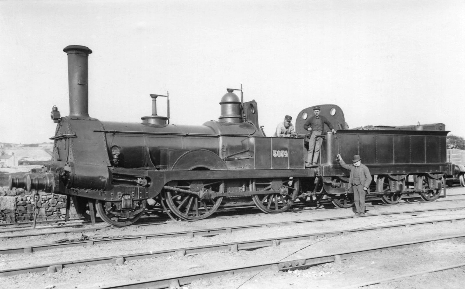 Photograph of LNWR engine No. 3074, built in 1854